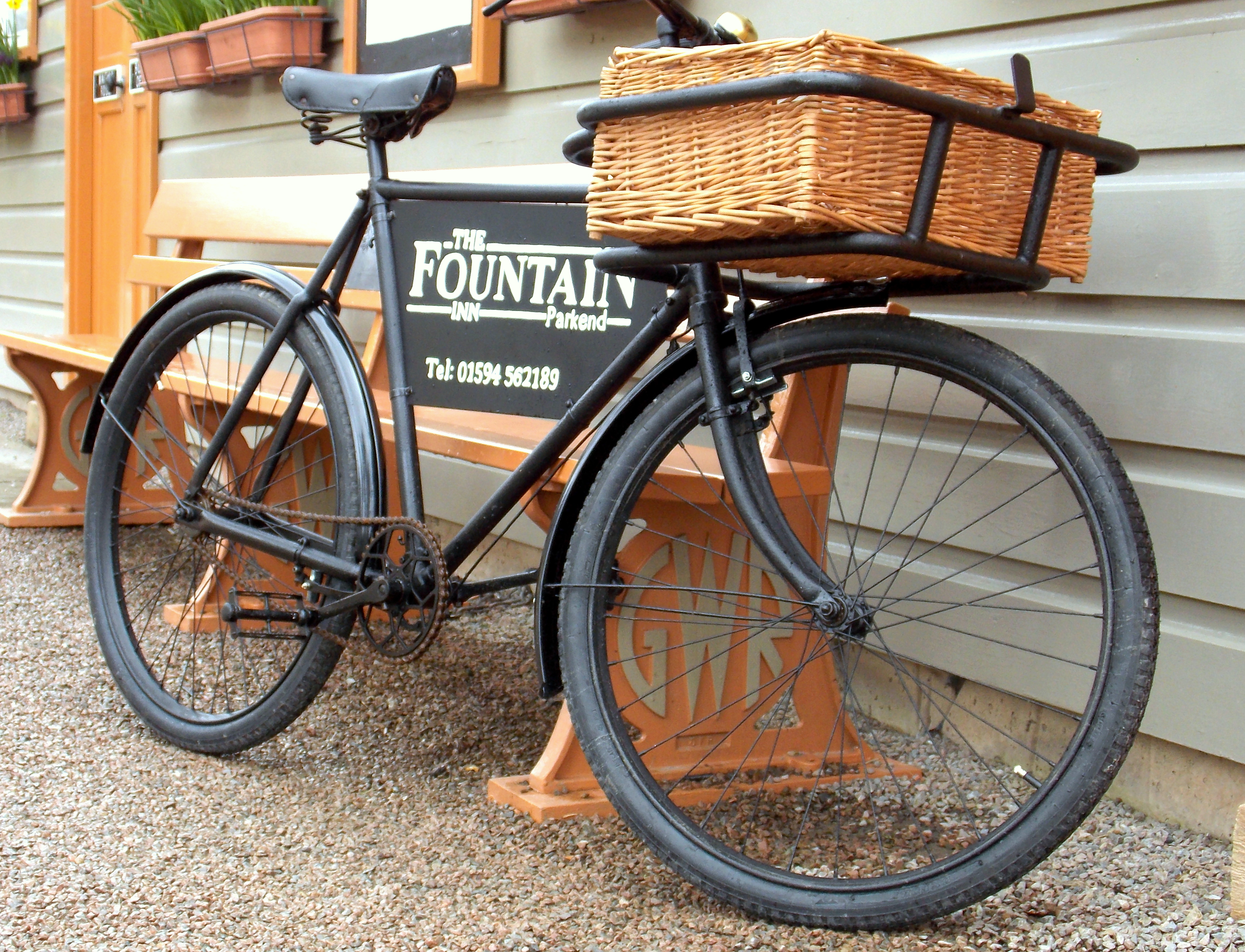 Delivery Bike at Parkend Station, in the Forest of Dean.